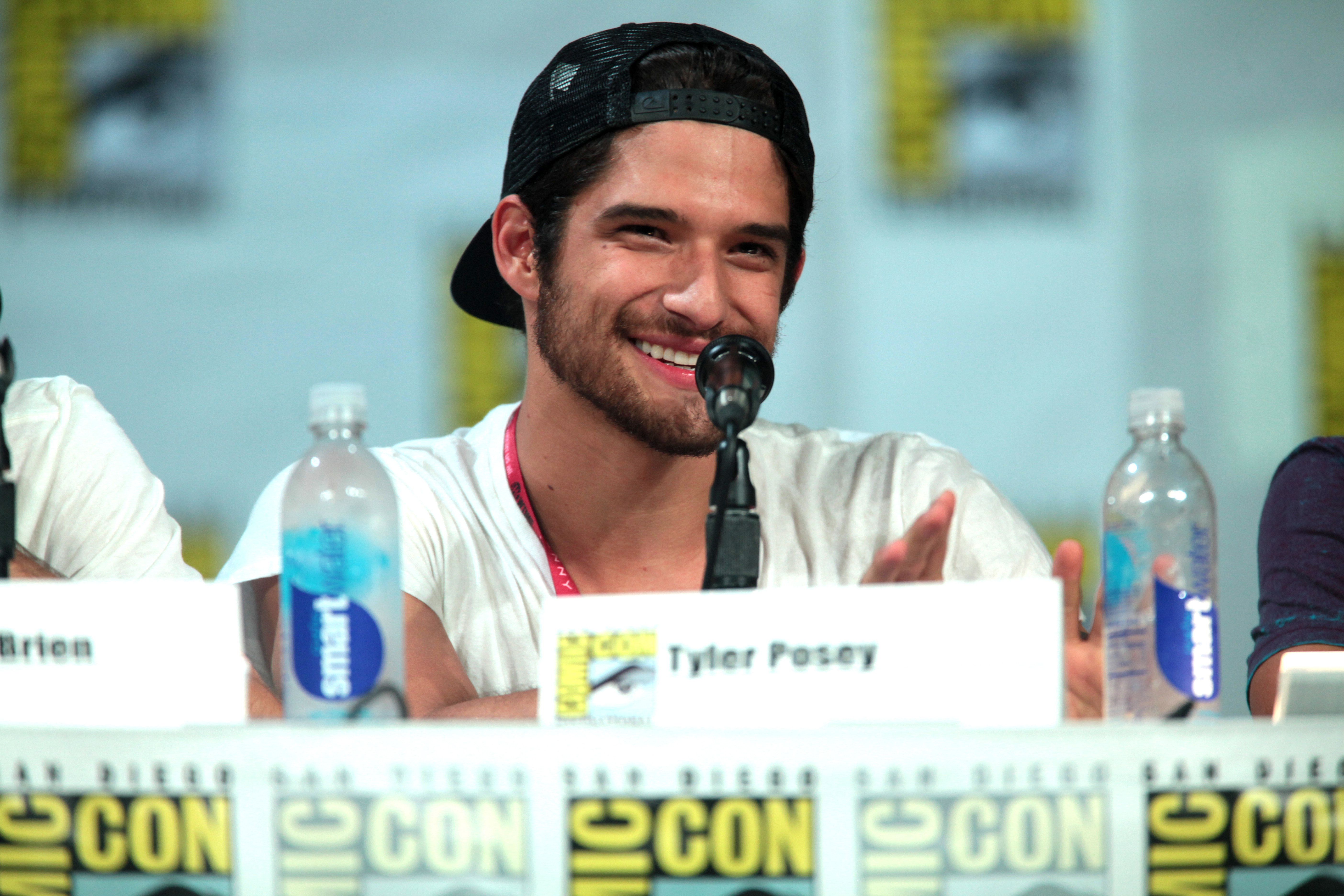 Tyler Posey speaking at the 2014 San Diego Comic Con International, for "Teen Wolf", at the San Diego Convention Center in San Diego, California.